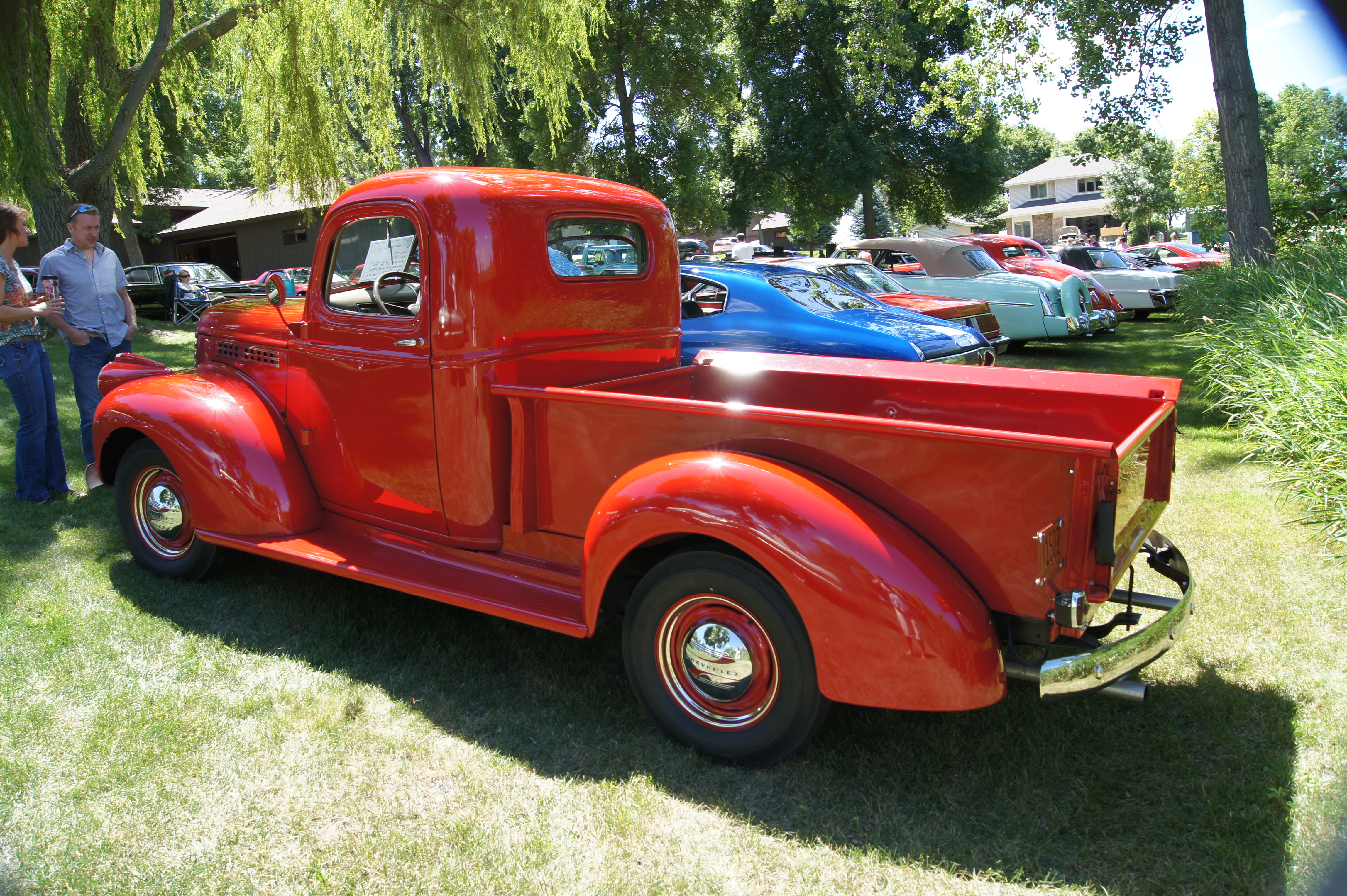 Paul and Carol hosted the 7th Annual "The Classic Cruise In" Another success: great food, fun and excellent weather